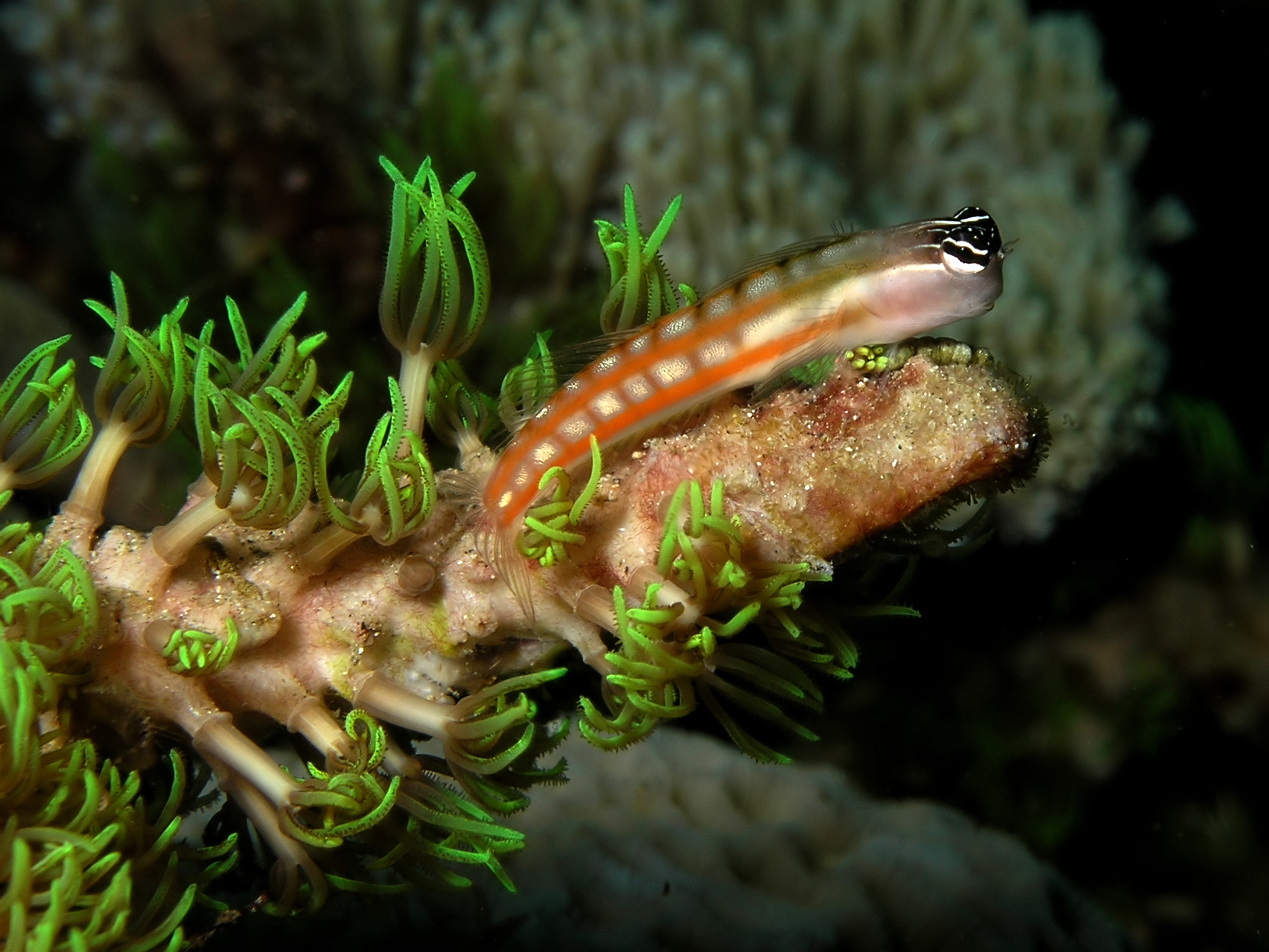 Australian blenny (Ecsenius axelrodi) in East Timor.